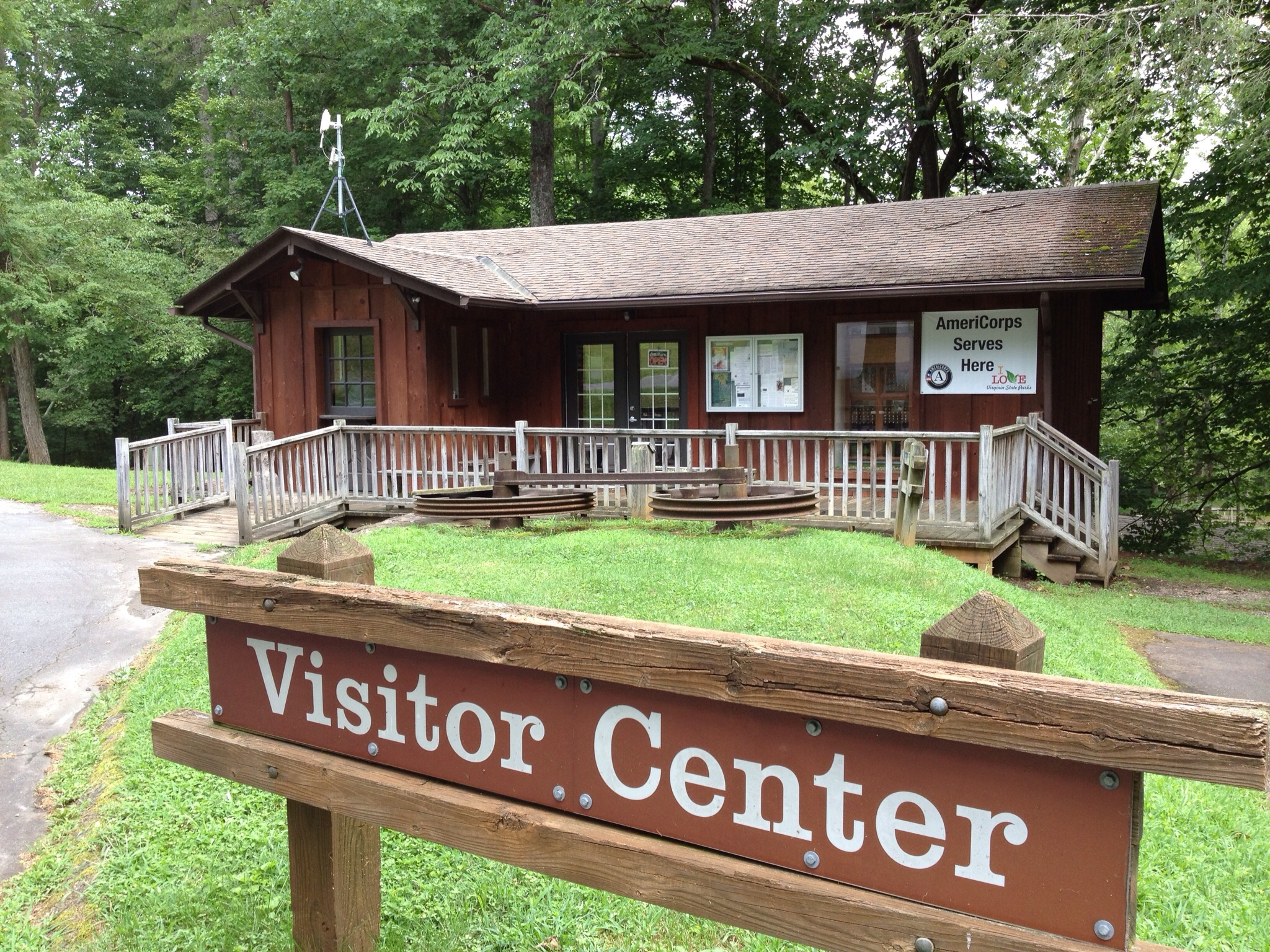 Learn about the history of the area and the park at the Visitor Center